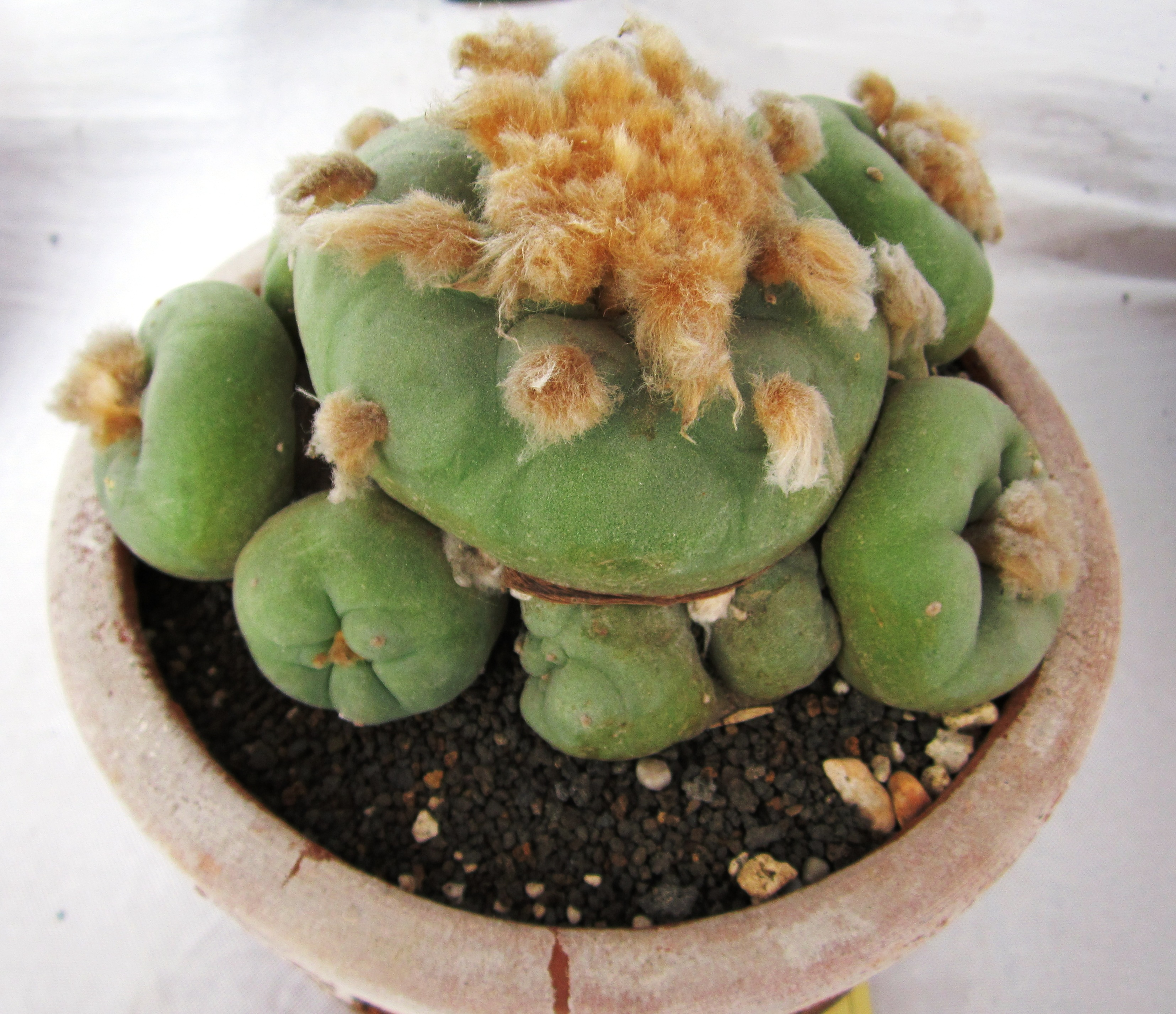 Lophophora difussa in 2013 Jakarta Flora and Fauna Exhibition.